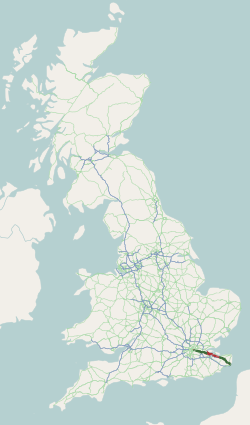 Map of the A2 road.